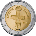 Euro-standard circulation Cypriot 2 euros coin (National/Obverse side)